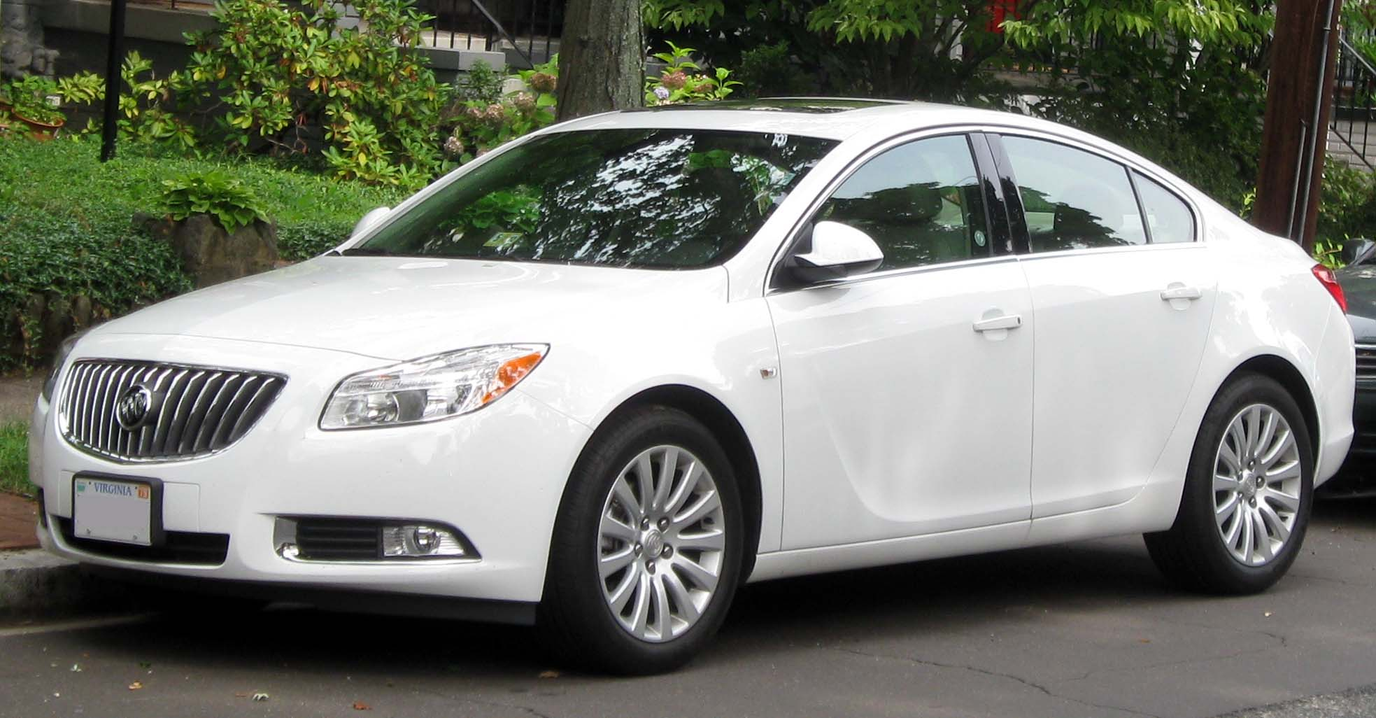 2011 Buick Regal CXL photographed in Washington, D.C., USA.